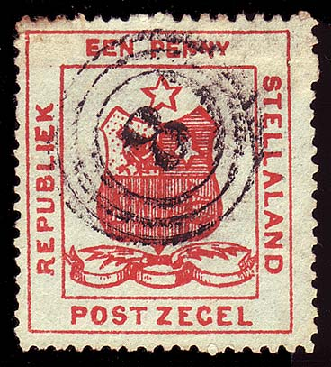 1884 stamp of Stelland